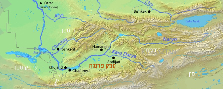 Map of the Fergana valley